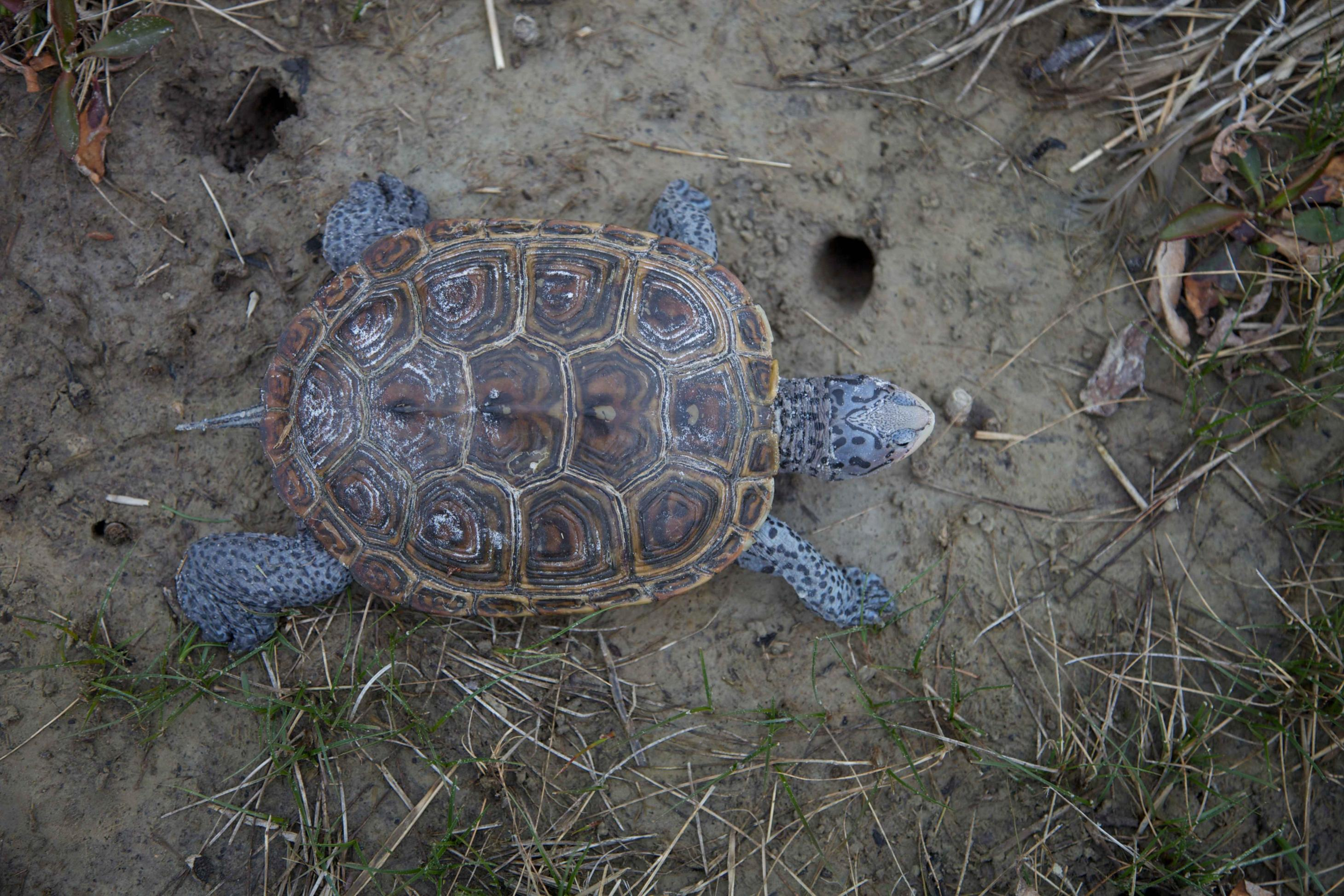 Image title: Malaclemys terrapin diamondback terrapin turtle animal Image from Public domain images website